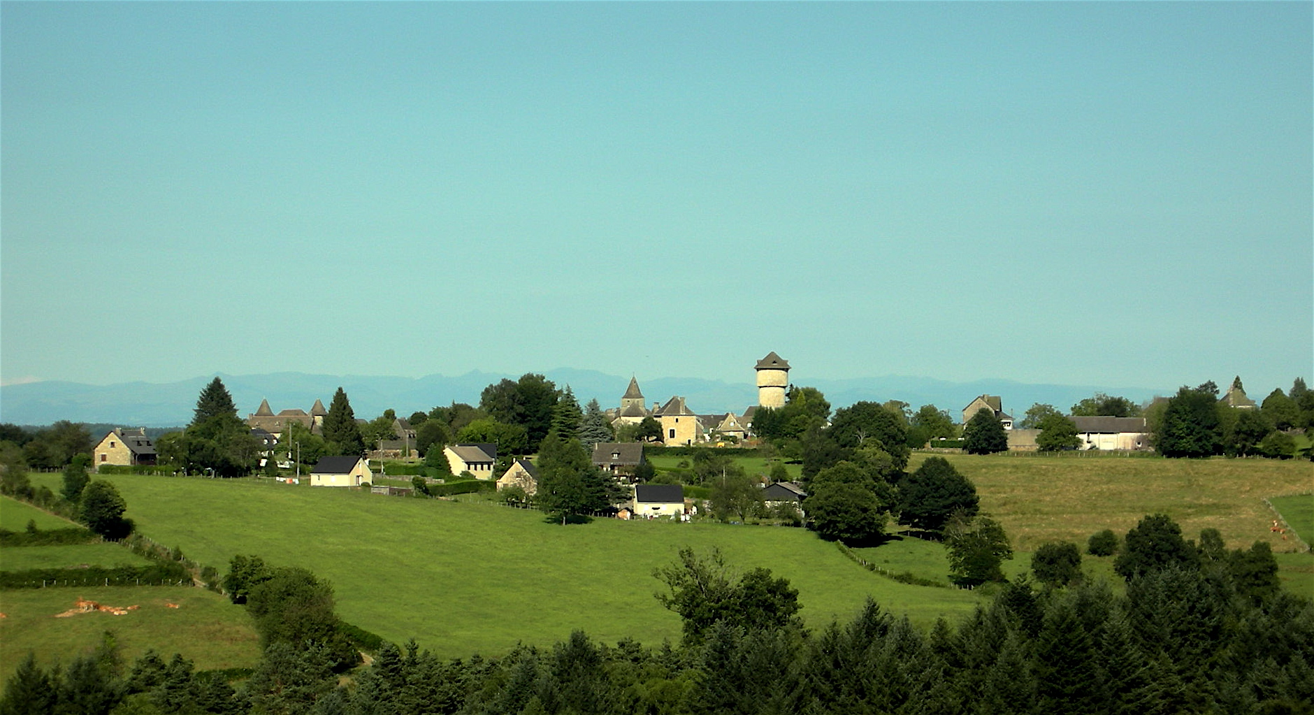 La Chapelle-Saint-Geraud (Corrèze, France), with Cantal mountains in the background.